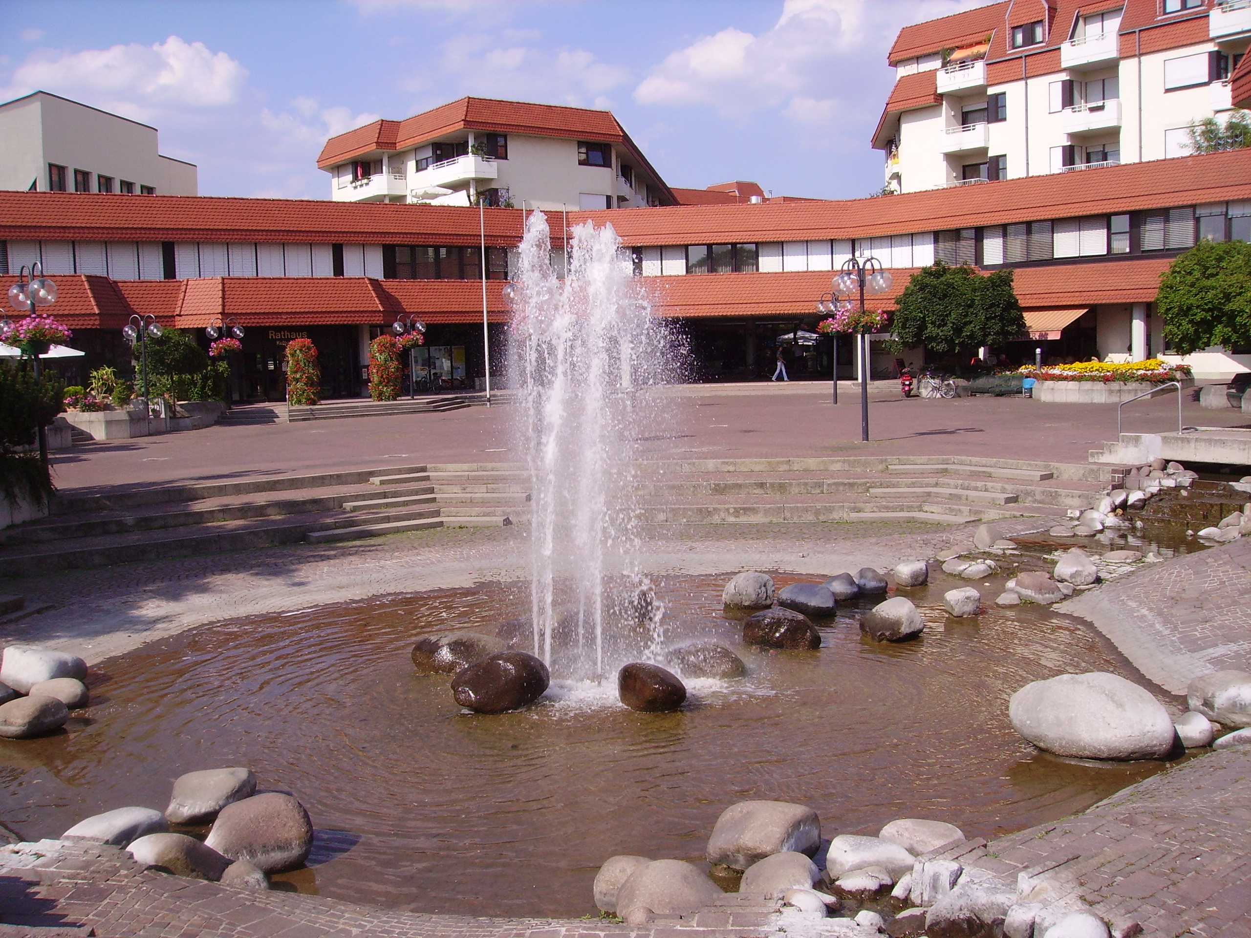 Limburgerhof, Germany